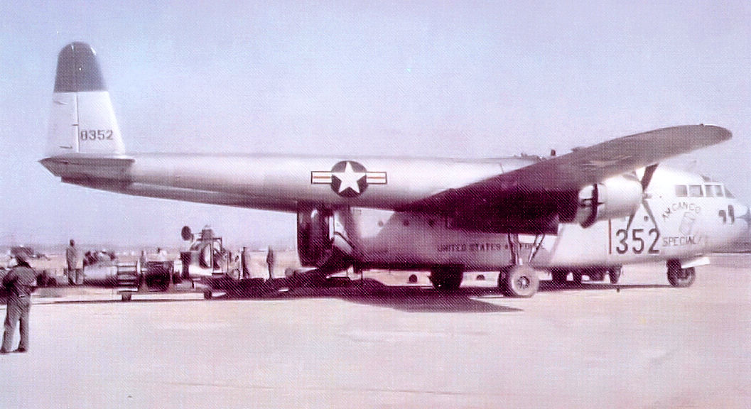 314th TCG Fairchild C-119B Flying Boxcar 48-352 operating from a base in South Korea, 1953. Aircraft later converted to C-119C 1955/56. To MASDC Dec 3, 1966. To civil registry as N13746.